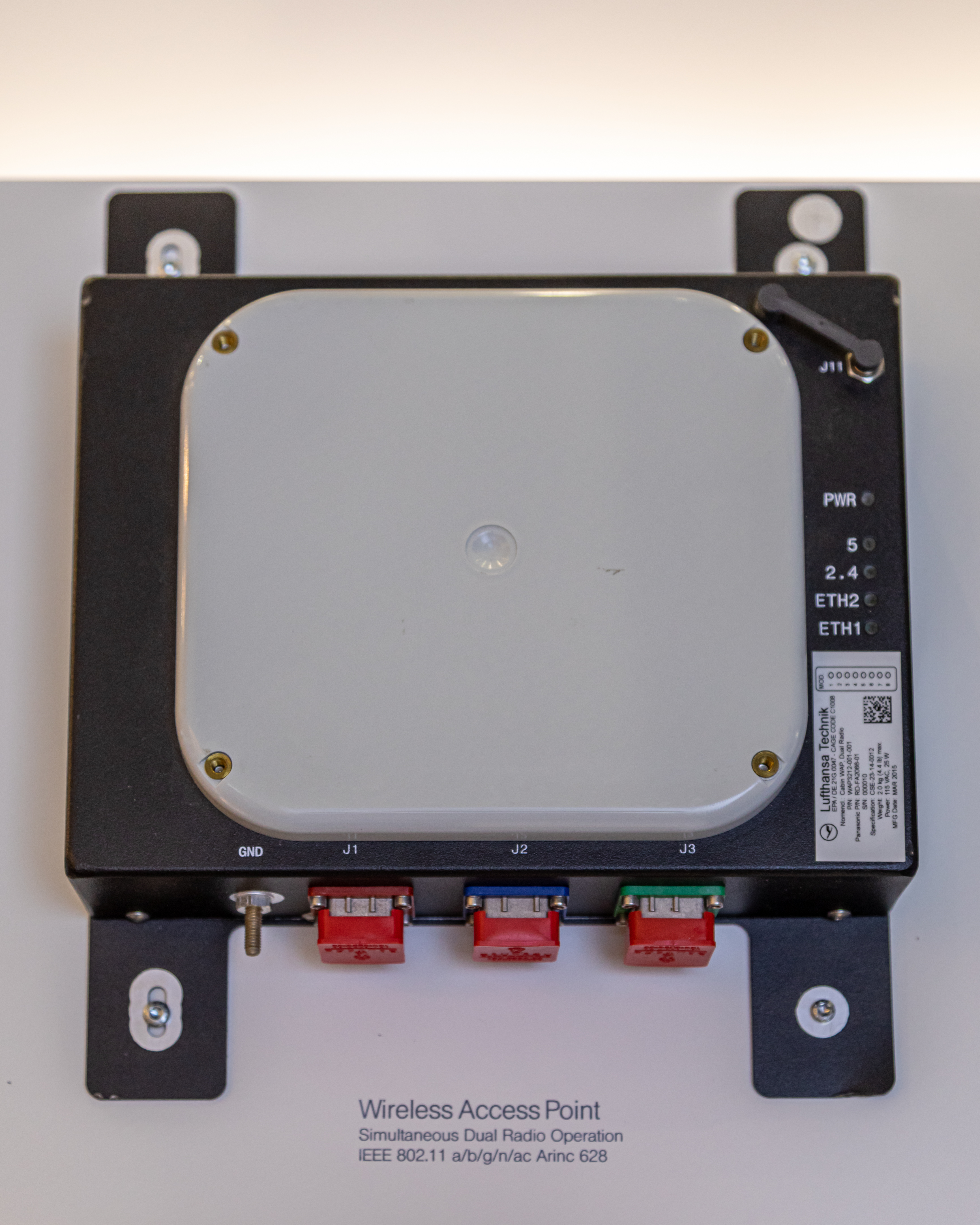 EBACE 2019, Palexpo, Switzerland